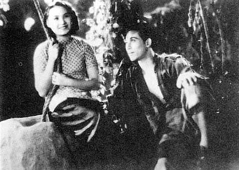 Chen Yanyan in the Big Road 1934 Chen Yanyan (12 January, 1916 – 7 May, 1999) was a Chinese actress. She made 24 films in China up to 1937 when the war ended film making in Shanghai.